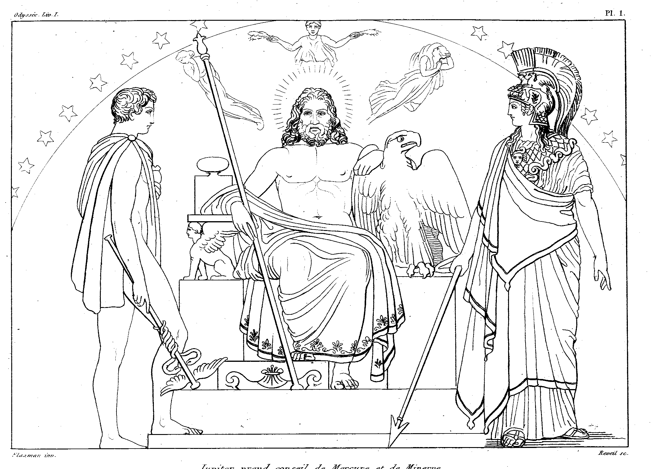 Illustrations of Odyssey